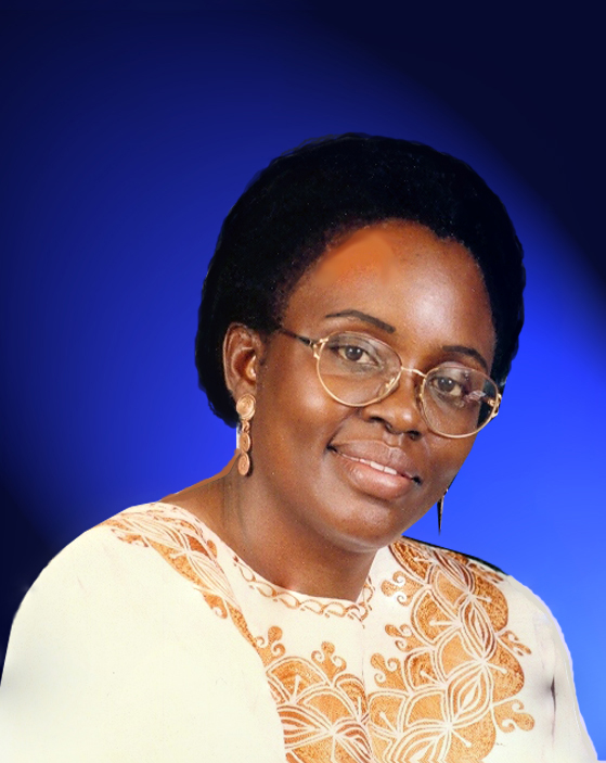 Photograph of celebrated Kenyan Author, Dr Margaret Ogola in 1999